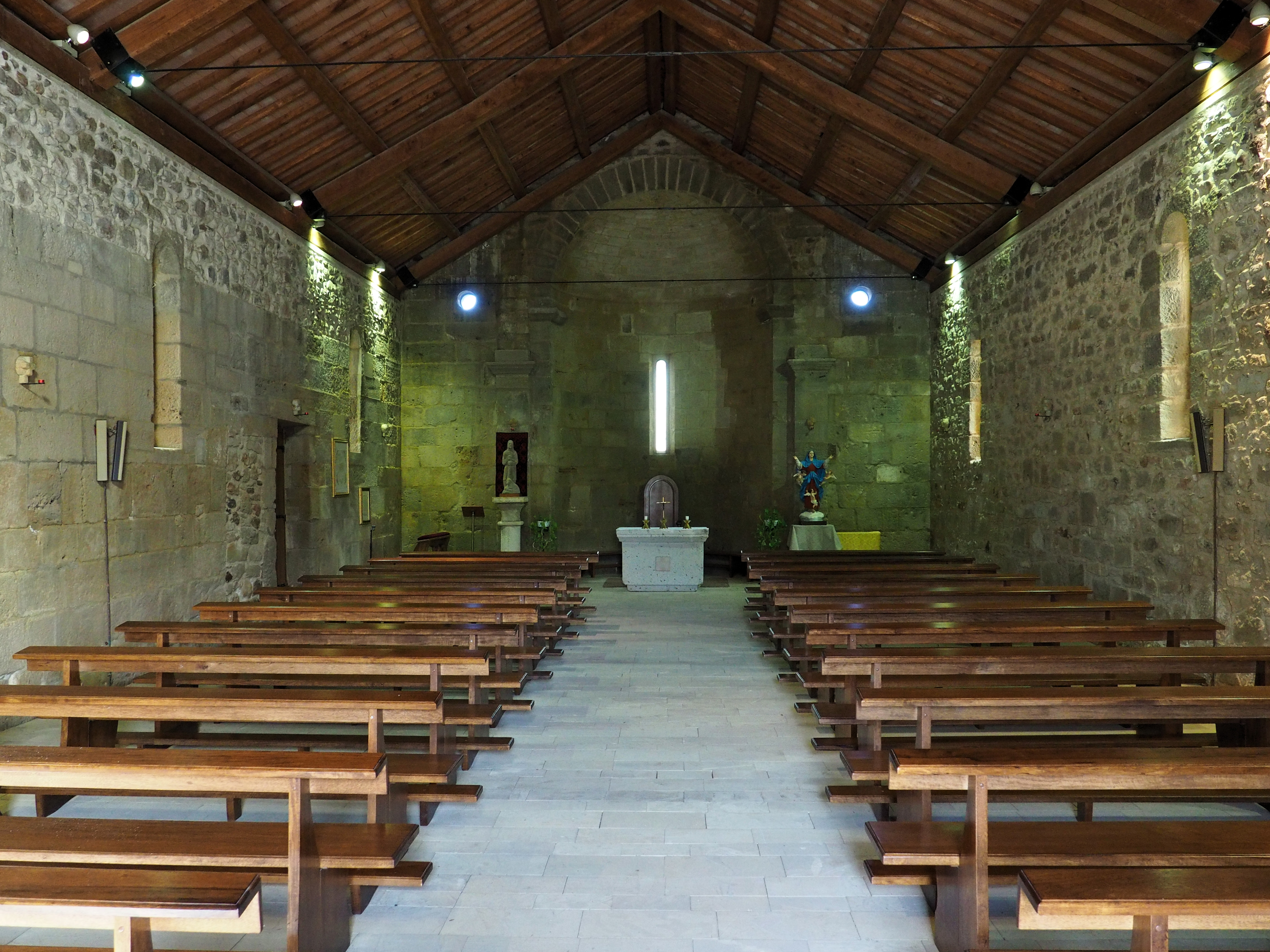 The interior of the Church of S. Giovanni Battista in Viddalba (SS)